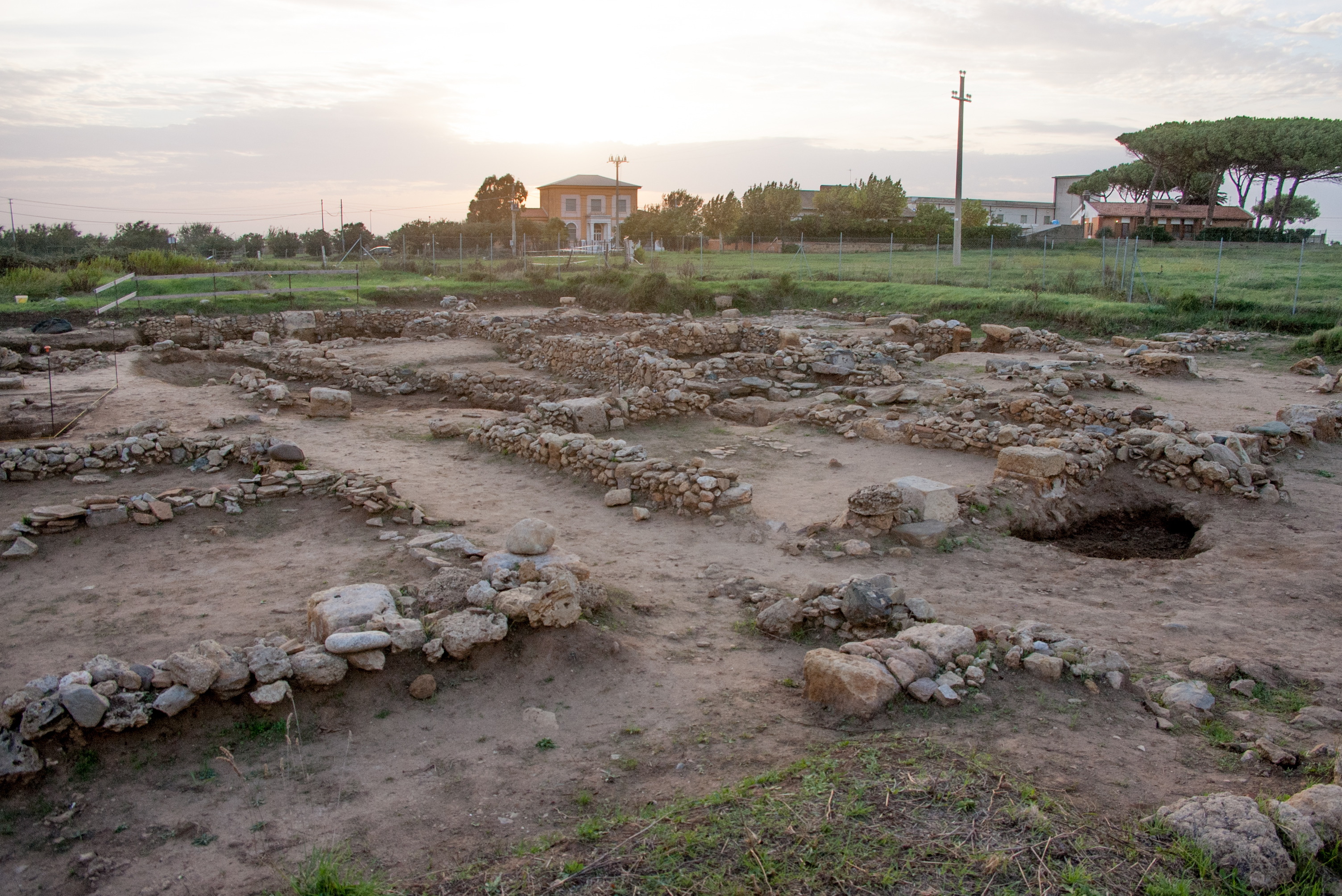 The excavations of ancient Gravisca, the harbour of Tarquinia.